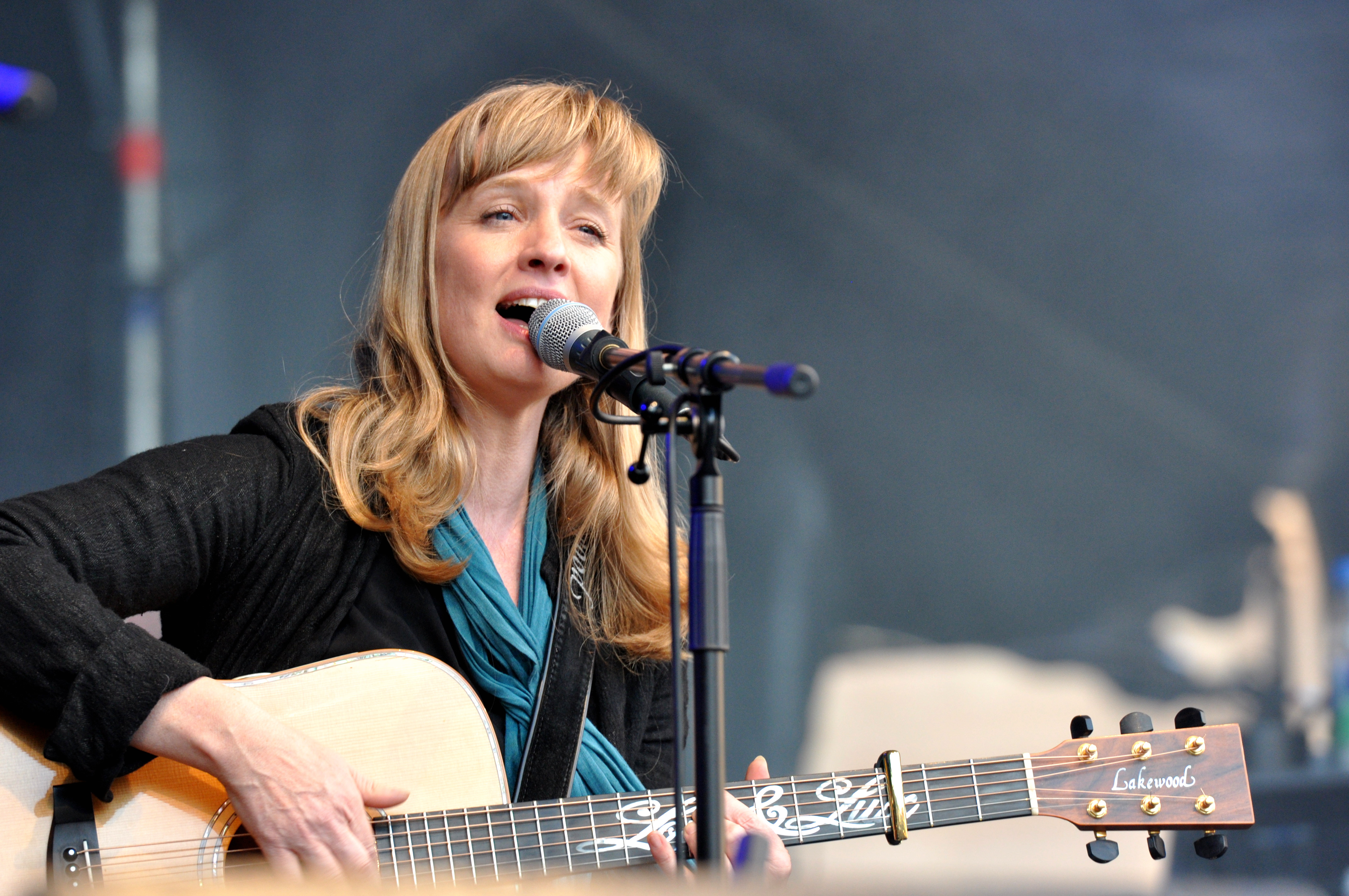 Stoppok, Christina Lux, 40th music festival 'Bardentreffen' 2015 at Nuremberg, Germany Festivalsommer This photo was created with the support of donations to Wikimedia Deutschland in the context of the CPB project "Festival Summer".